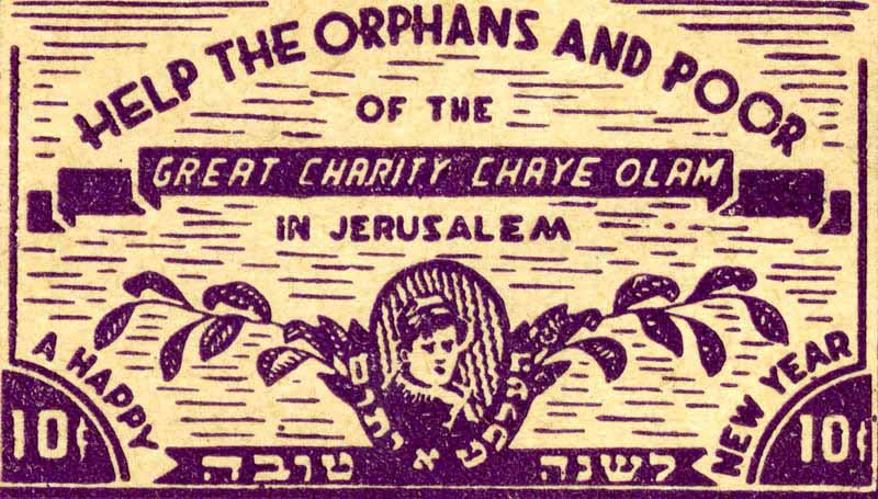 Creator: unknown Date: circa 1940s Object origin: United States of America Medium: paper, printed stamp Repository: Call Number: 2001.061 Rights Information: No known copyright restrictions; may be subject to third party rights. For more copyright information, click See more information about this image and others at This material may be used for personal, research and educational purposes only. Any other use without prior authorization is prohibited. Please contact the Yeshiva University Museum at for further information.